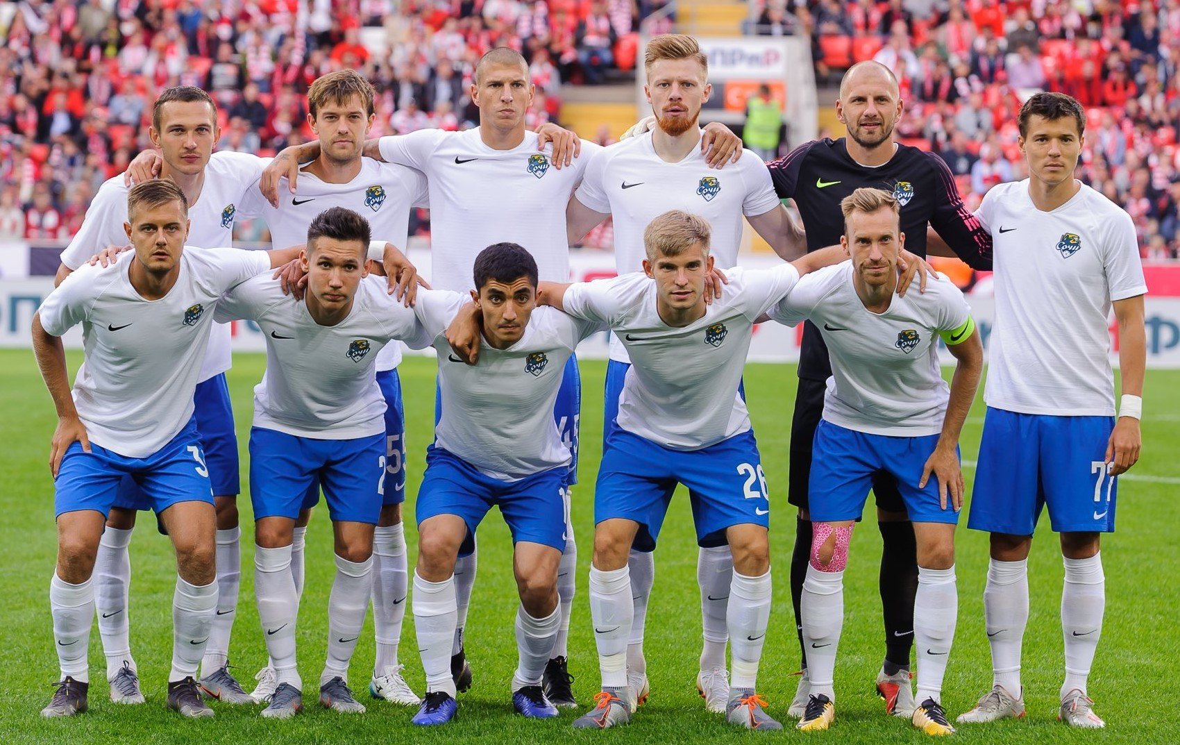 PFC Sochi in a game against FC Spartak Moscow